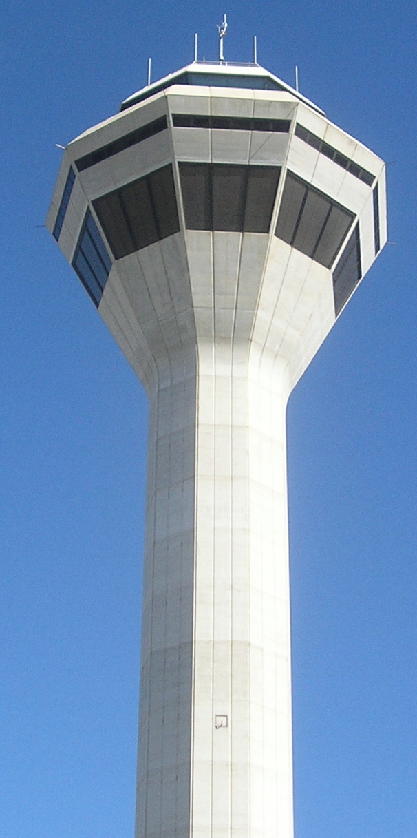 Perth's International Airport tower, Perth, Western Australia. Taken by Ali_K in April 2006.